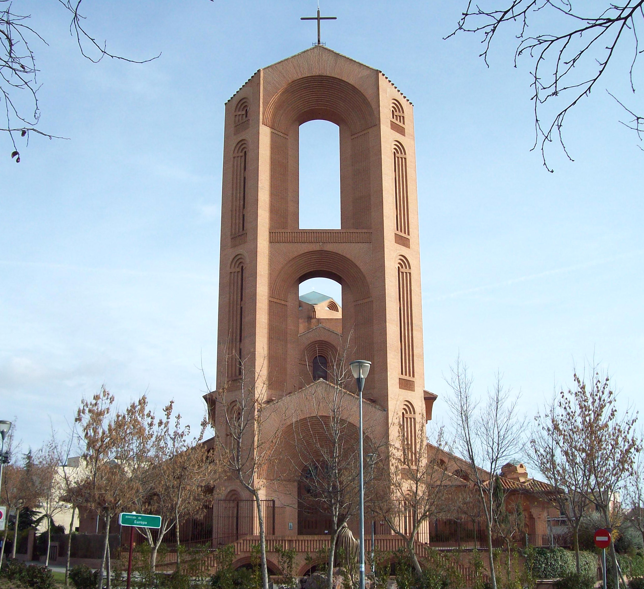 North-west façade of Santa María de Caná Church in Pozuelo de Alarcón (Community of Madrid, Spain).